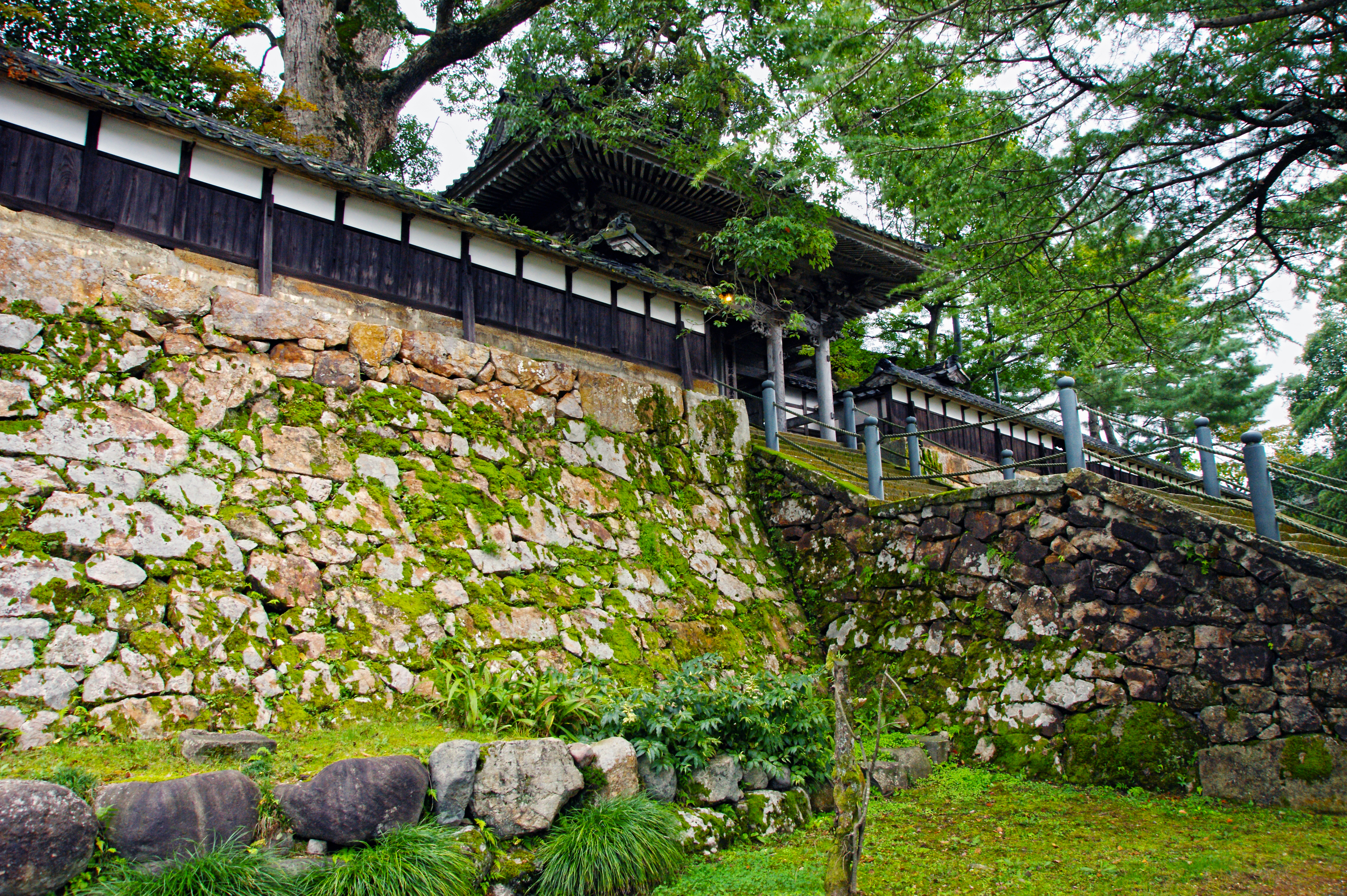 Daijoji in Kami, Hyogo prefecture, Japan